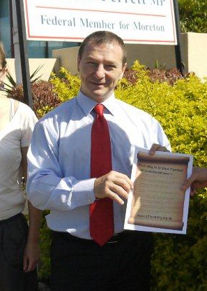 Graham Perrett with members of the Lock the Gate Alliance.